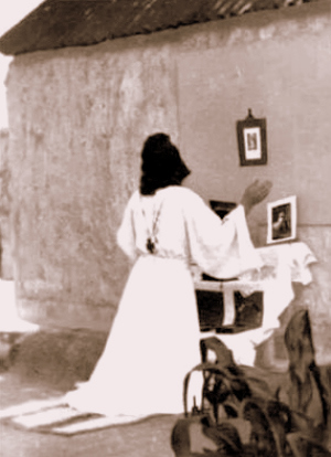 Master Dr. Serge Raynaud de la Ferrière, making his Cosmic Ceremony in the Holy Ashram of Límon.